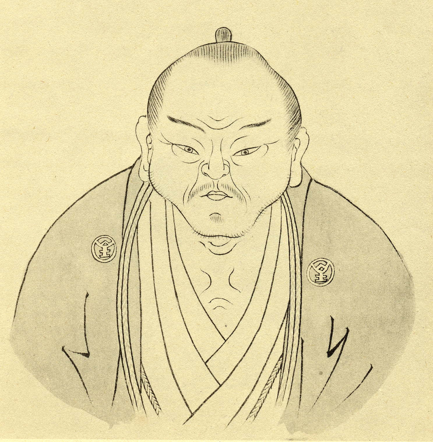 Hirata Atsutane (平田篤胤1776- 1843) was a Japanese scholar and one of the most significant theologians of the Shintō religion.